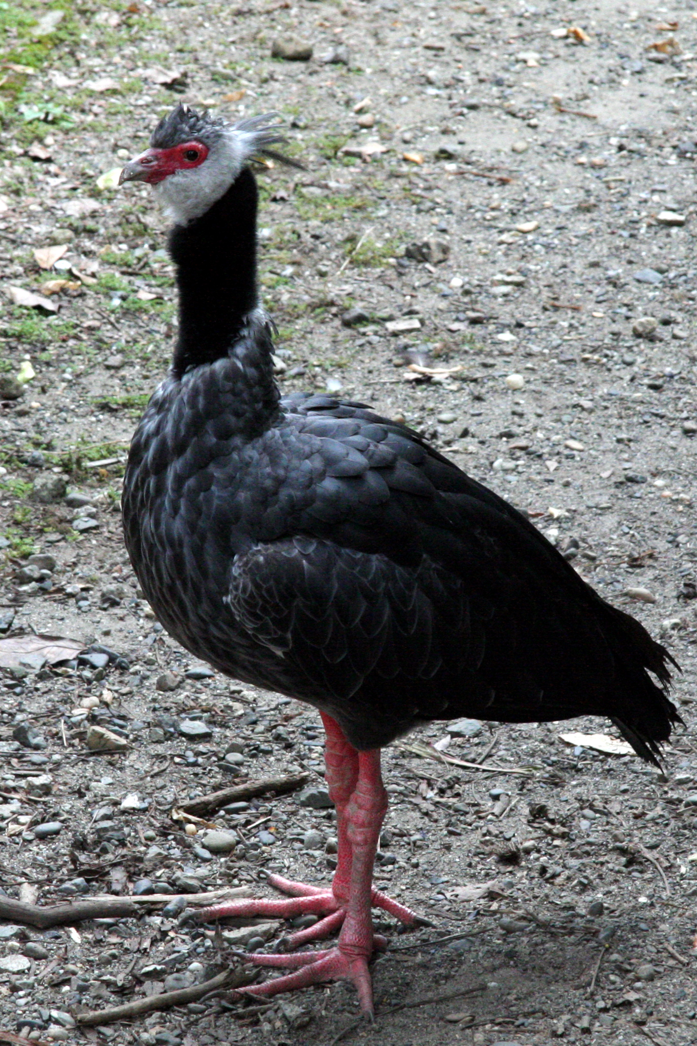 Northern Screamer (also known as the Black-necked Screamer) in South America.